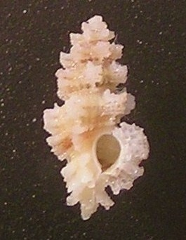 Favartia guamensis Emerson & D'Attilio, 1979, a murex snail from the family Muricidae; Philippines Category:Muricidae